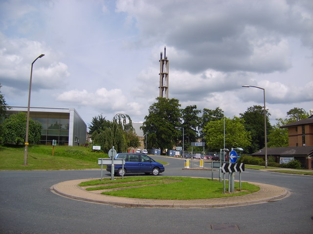 Chimney at York Science Park